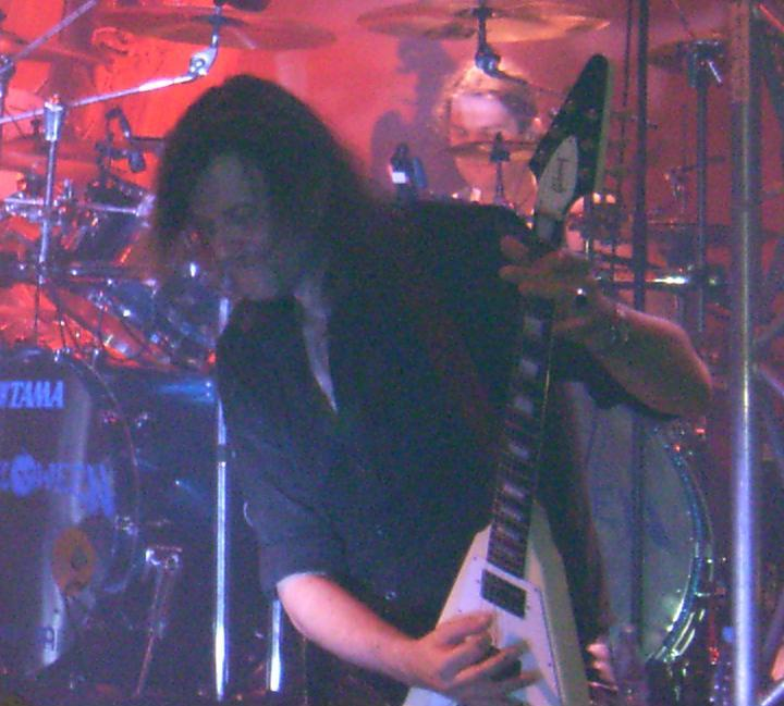 Michael Weikath with Helloween Live at Löwensall in Nuremberg 18.01.2006